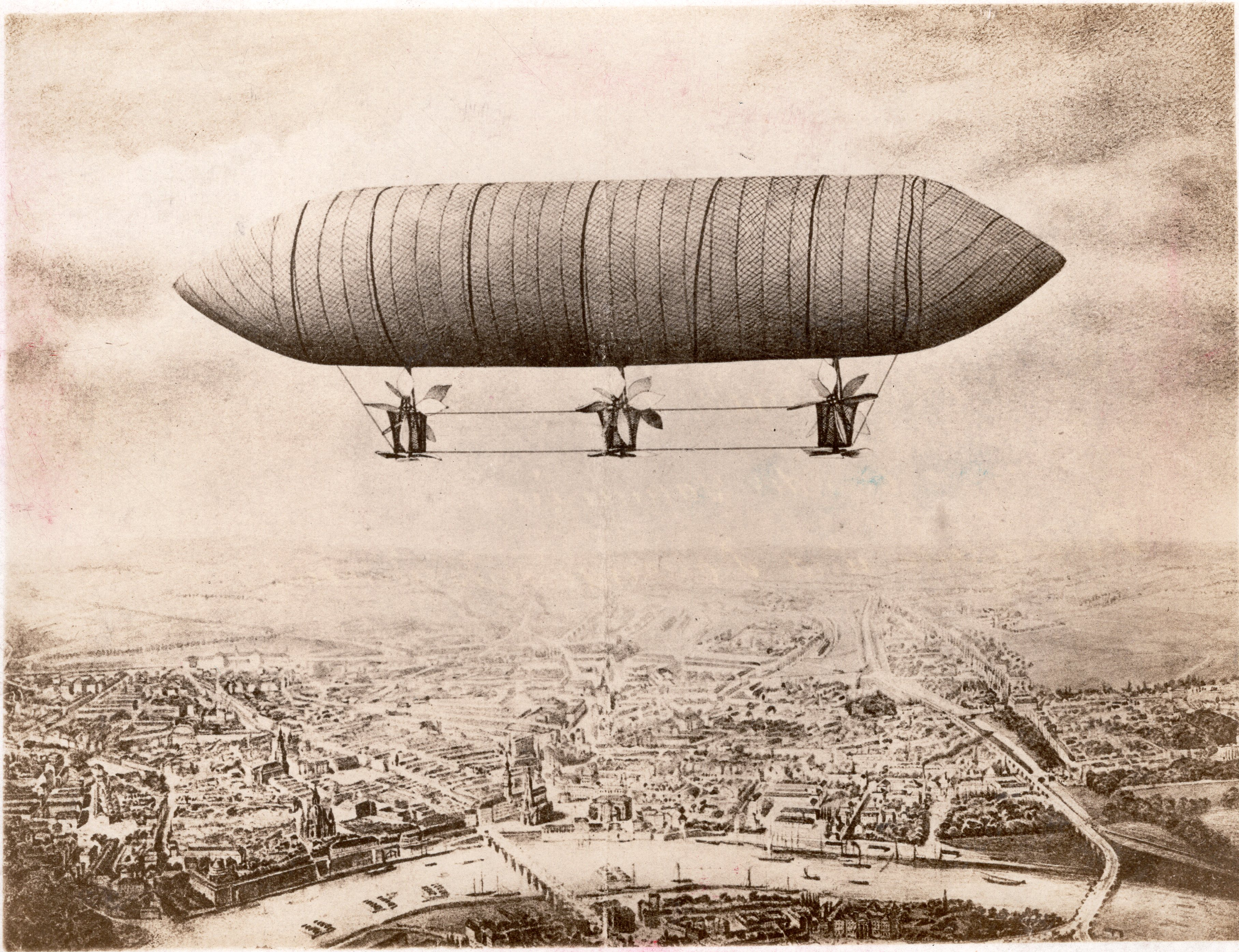 Collage: Baumgarten's Leipzig-airship in the skies above Dresden